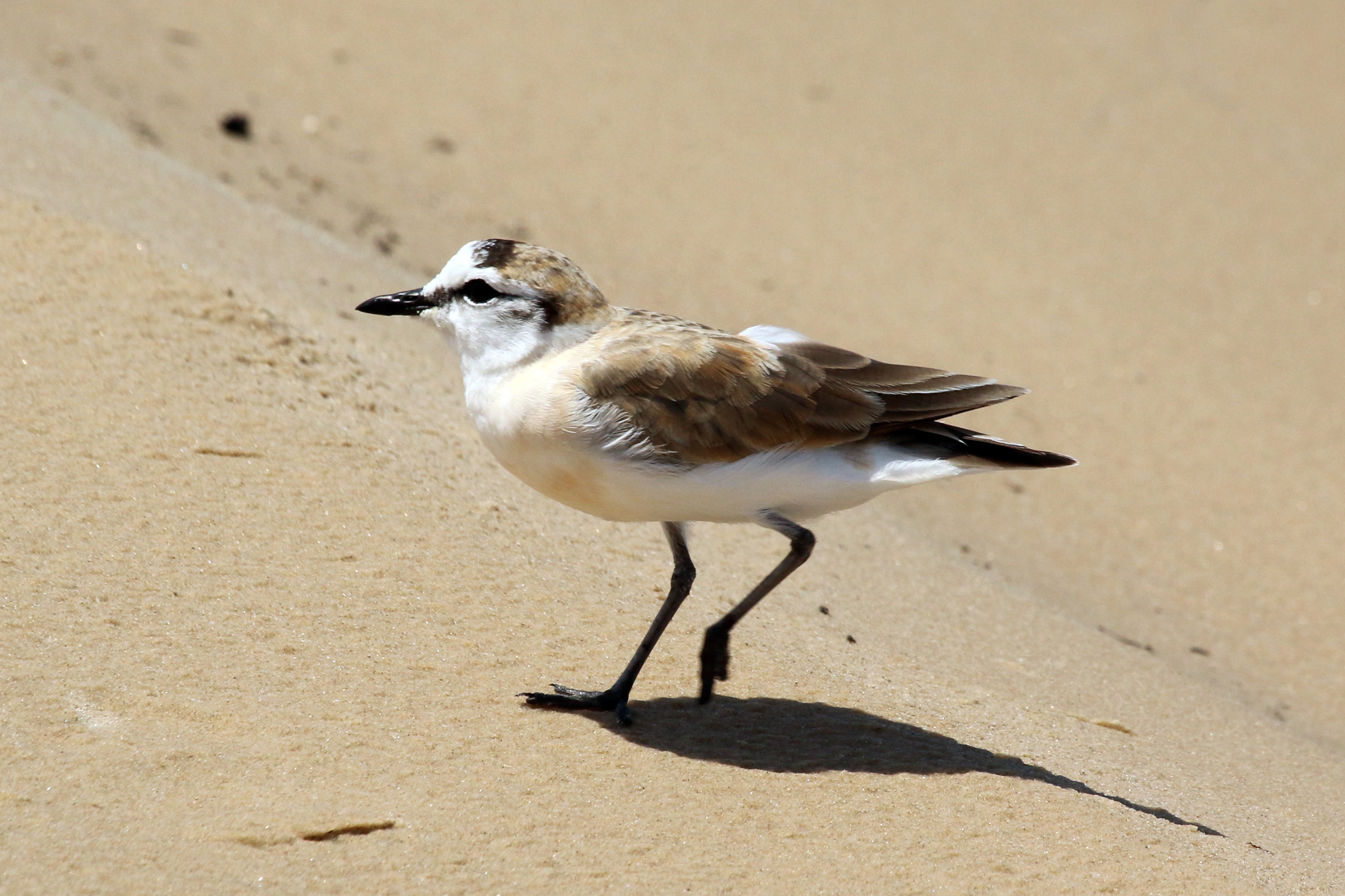 White-fronted plover (Charadrius marginatus), iSimangaliso Wetland Park, KwaZulu Natal, South Africa